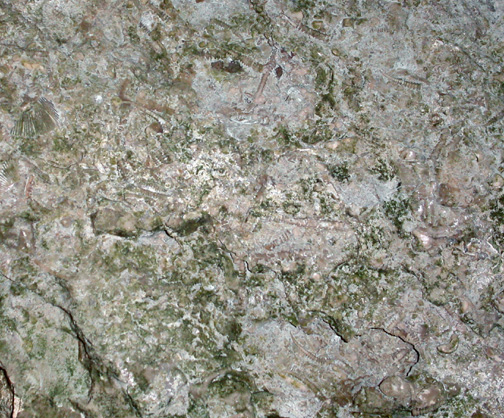 Tentaculite fossils. Steven Baumann taken on 1-22-2006. This photo is entirely my work.